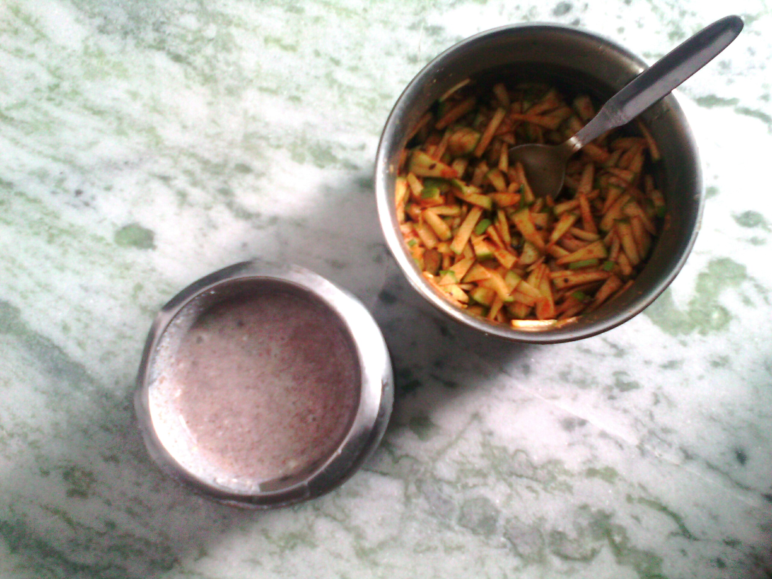 Koozh and Maanga pachadi